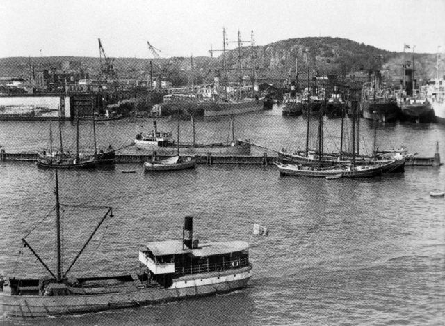 Norwegian Kvarstadships moored in Gothenburg Free Port in the beginning of WWII. Stems towards land in order to make "escaping" difficult.